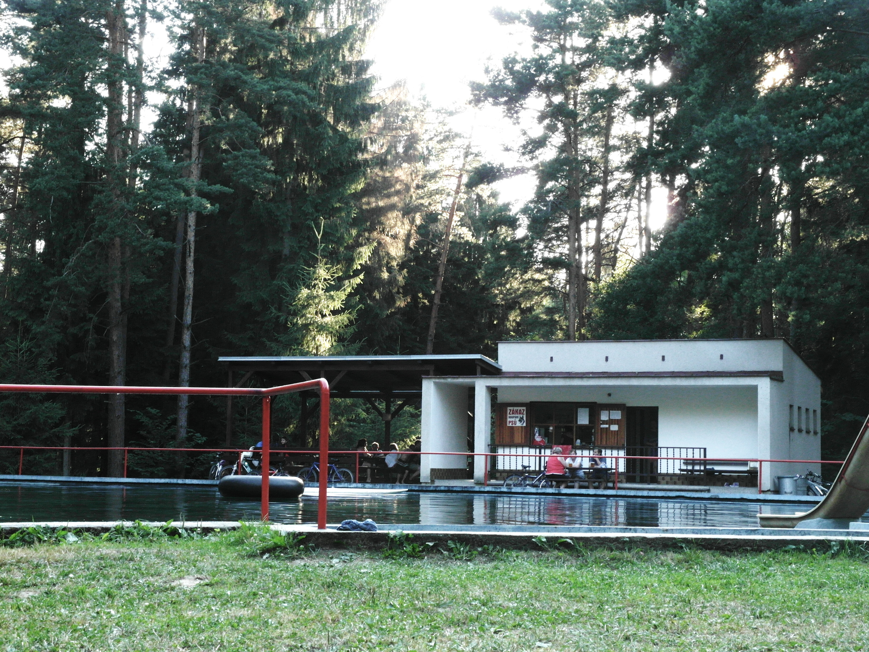 Swimming pool in Bor u Skutče village